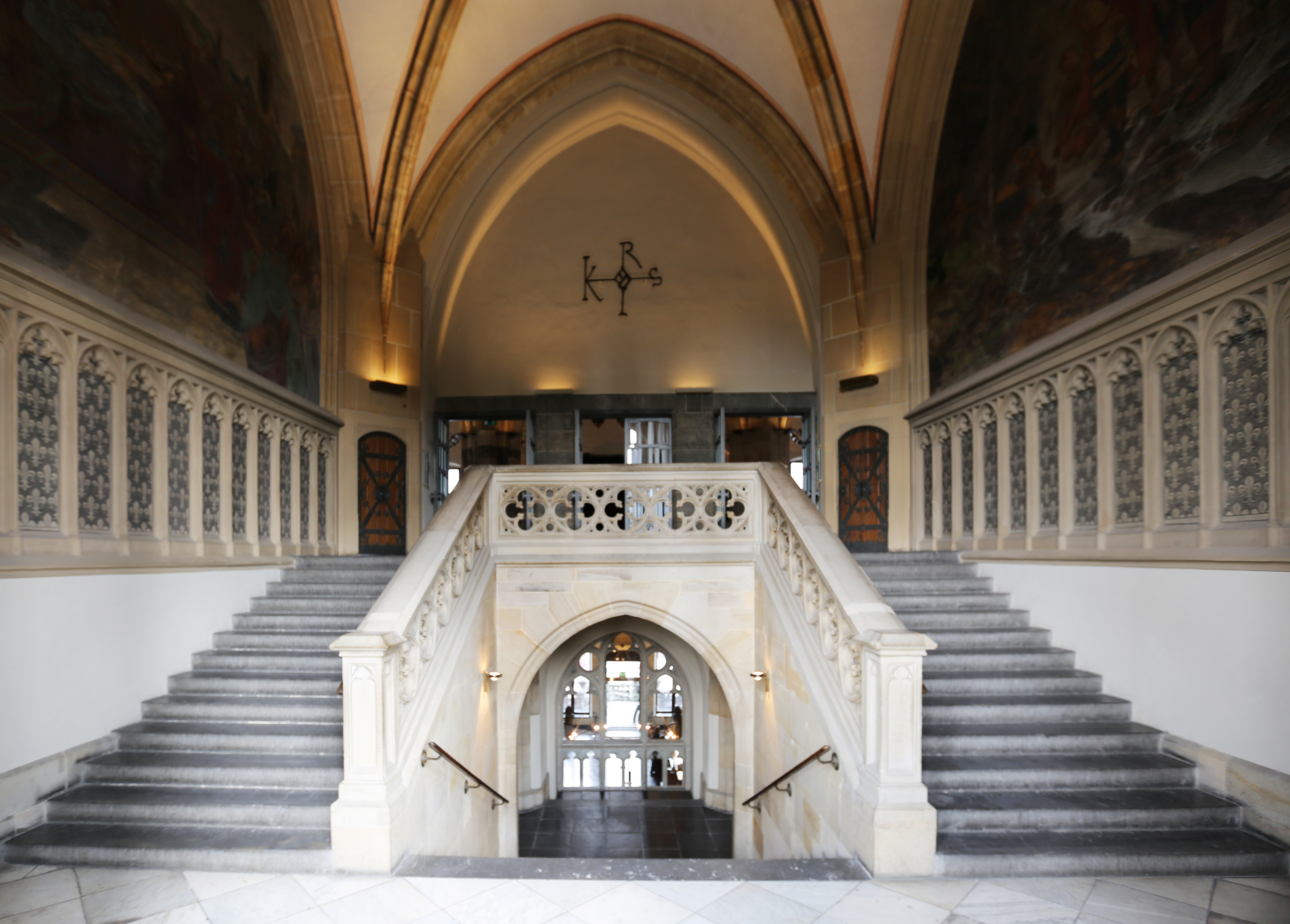 The Gothic Aachen Rathaus. Double or imperial staircase to the Coronation Hall (1840) and the monogram of Charlemagne